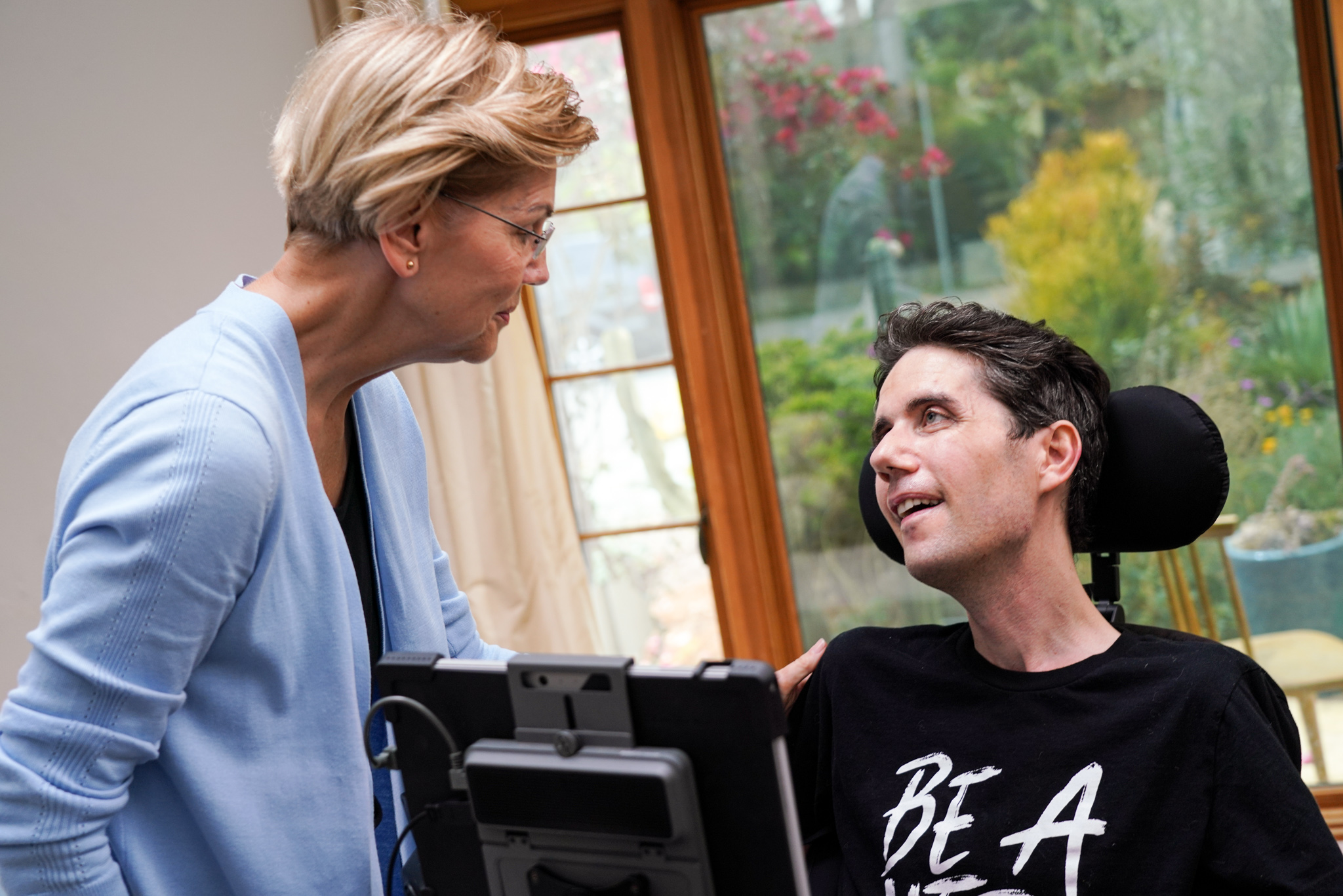 July 22, 2019